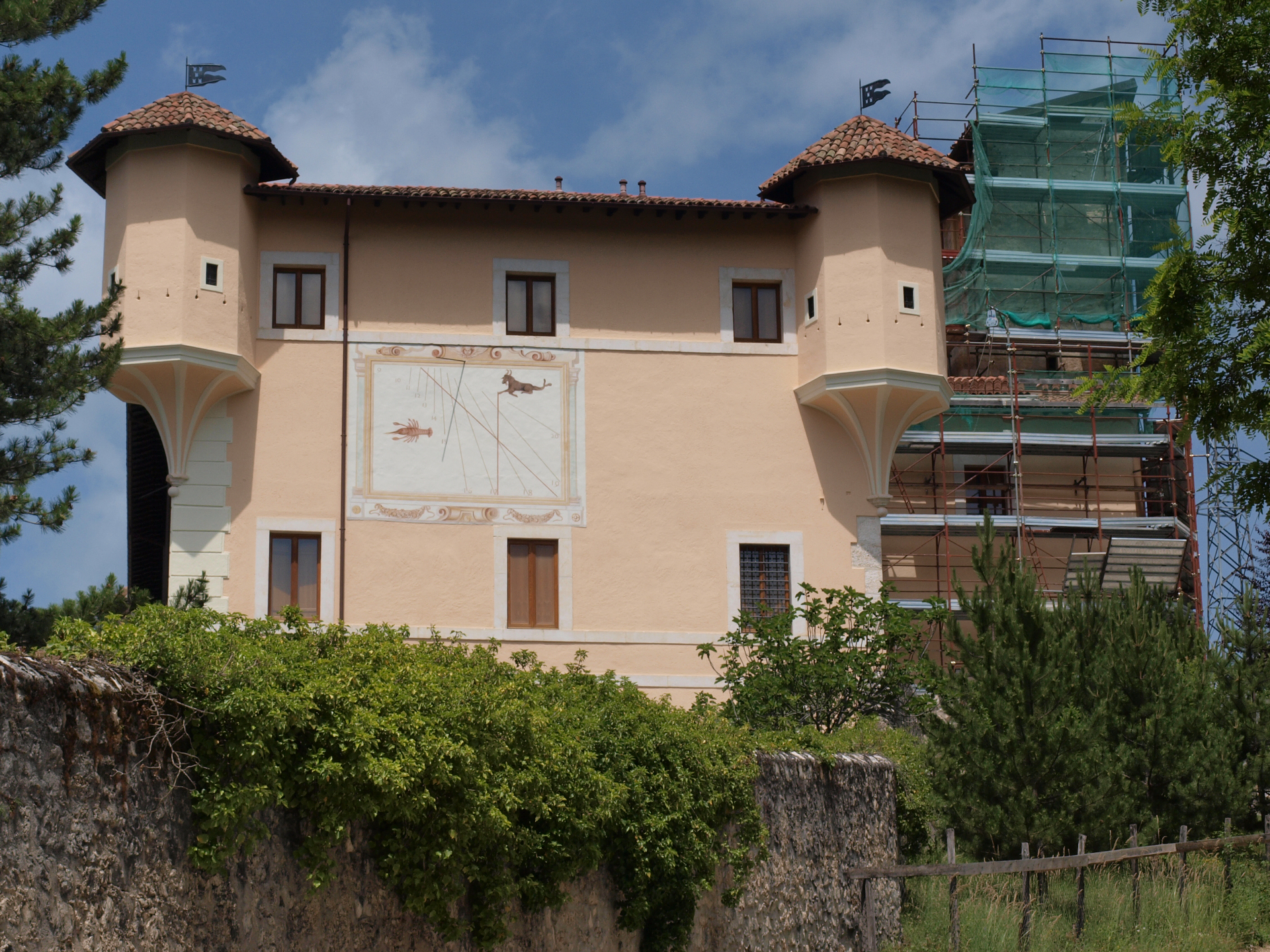 Castle (Castello Dragonetti) in Pizzoli (Abruzzo region, L'Aquila province, Italy)